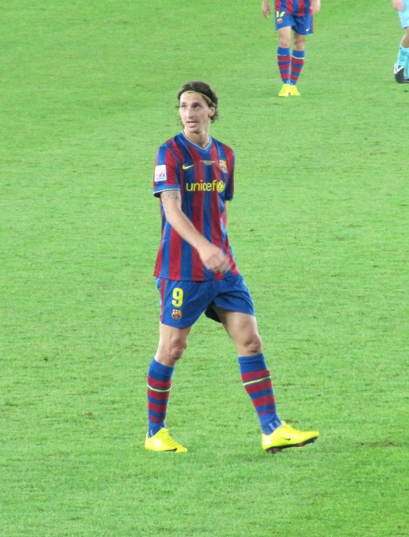 Zlatan Ibrahimovic during 2009 FIFA Club World Cup in Abu Dhabi.